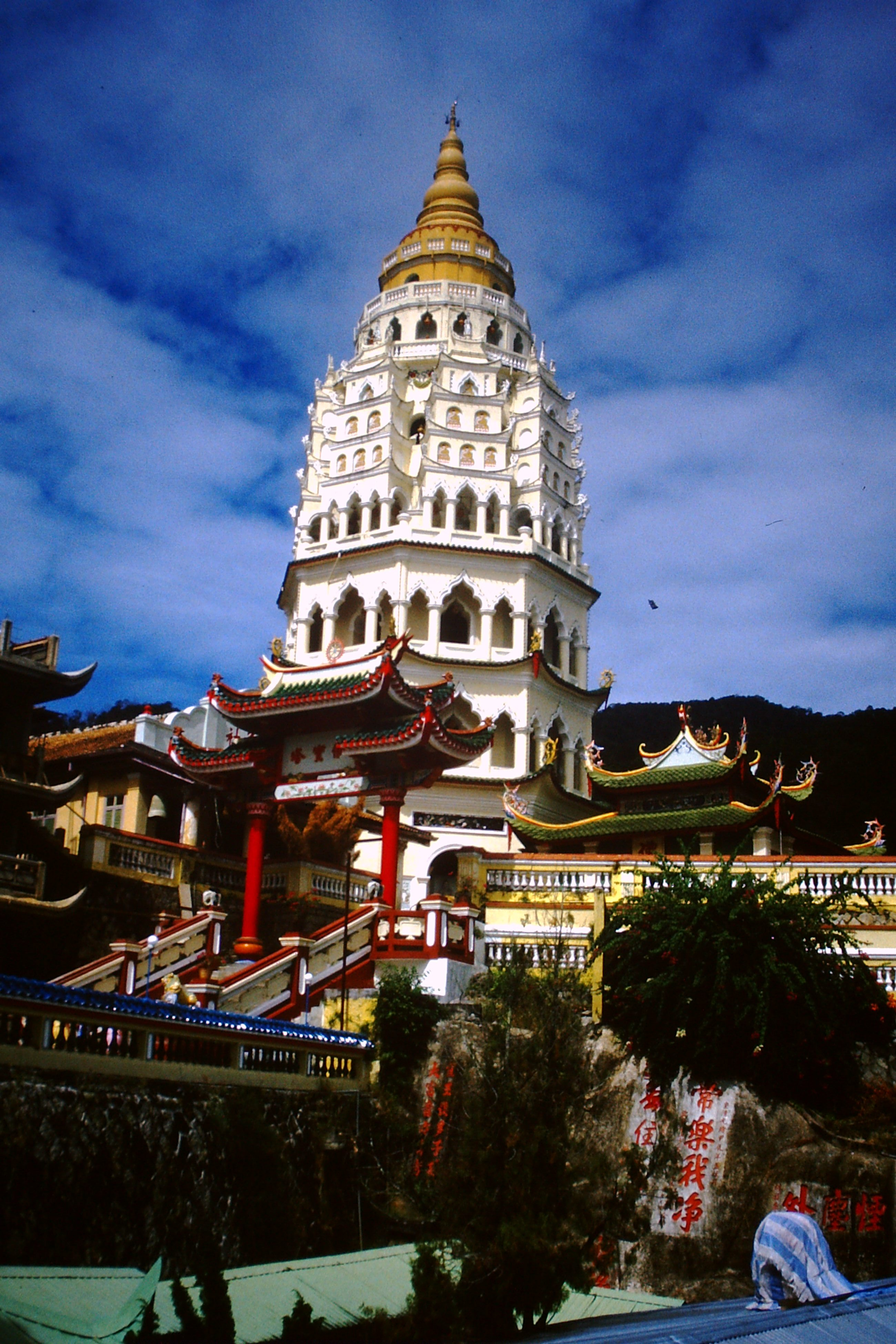 Kek Lok Si temple (temple of Supreme Bliss) in Air Itam, Penang Island, (Malaysia). This photograph was taken with an analogue camera and digitized with a scanner. Photo taken 1985 with a miniature camera Minox 35 PL.